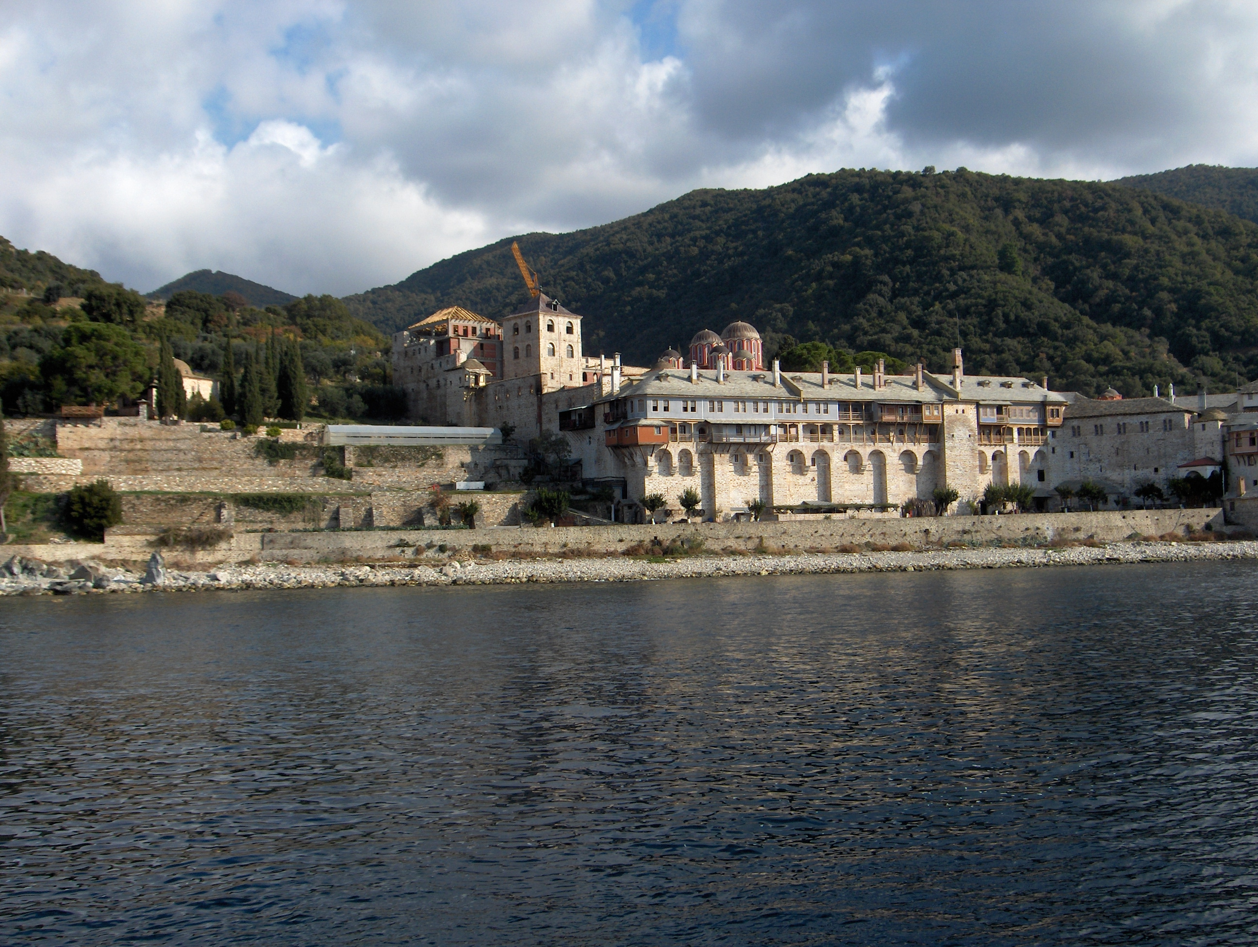 Xenophontos monastery, Mount Athos, Greece